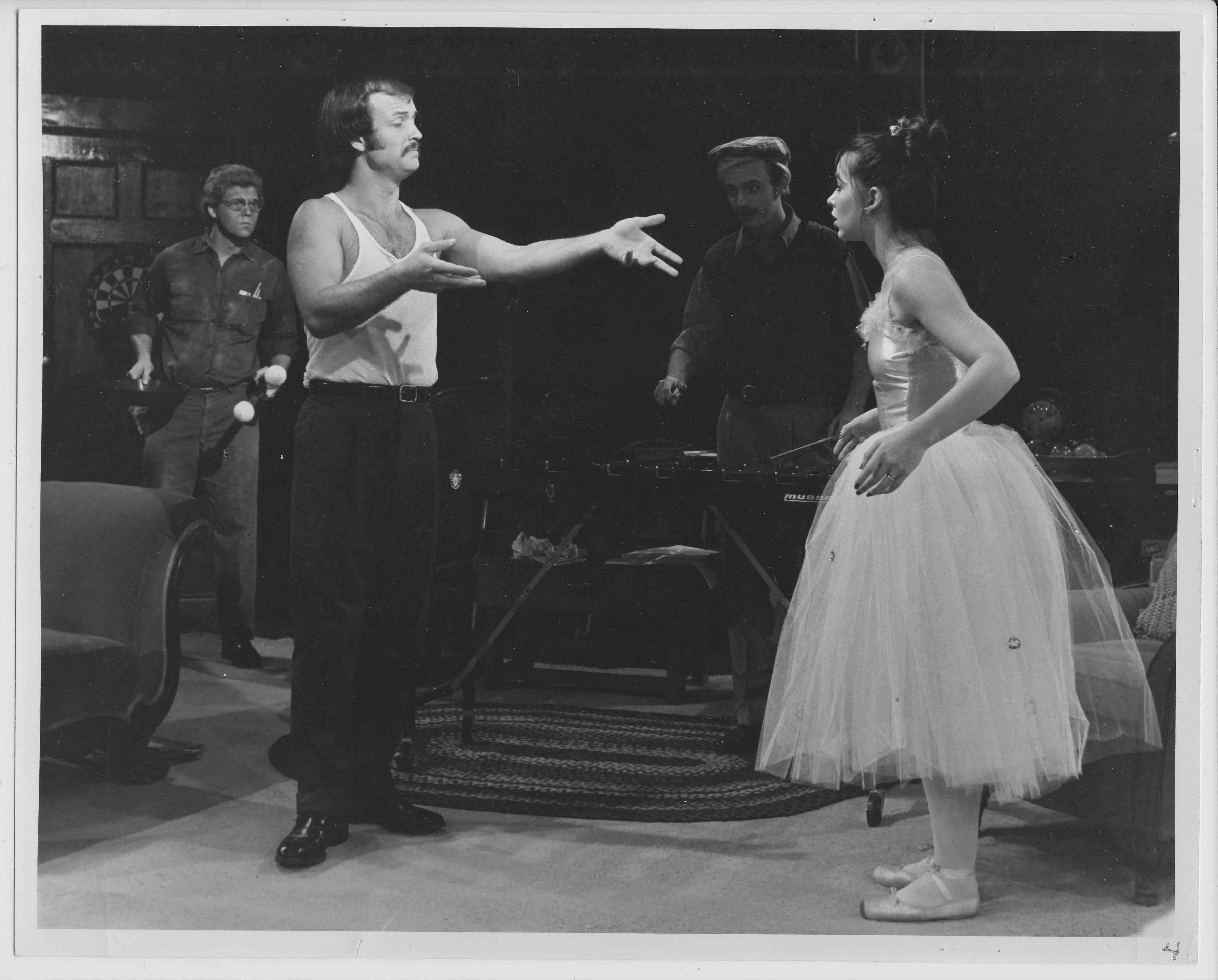 YouCantTakeItWithYou1